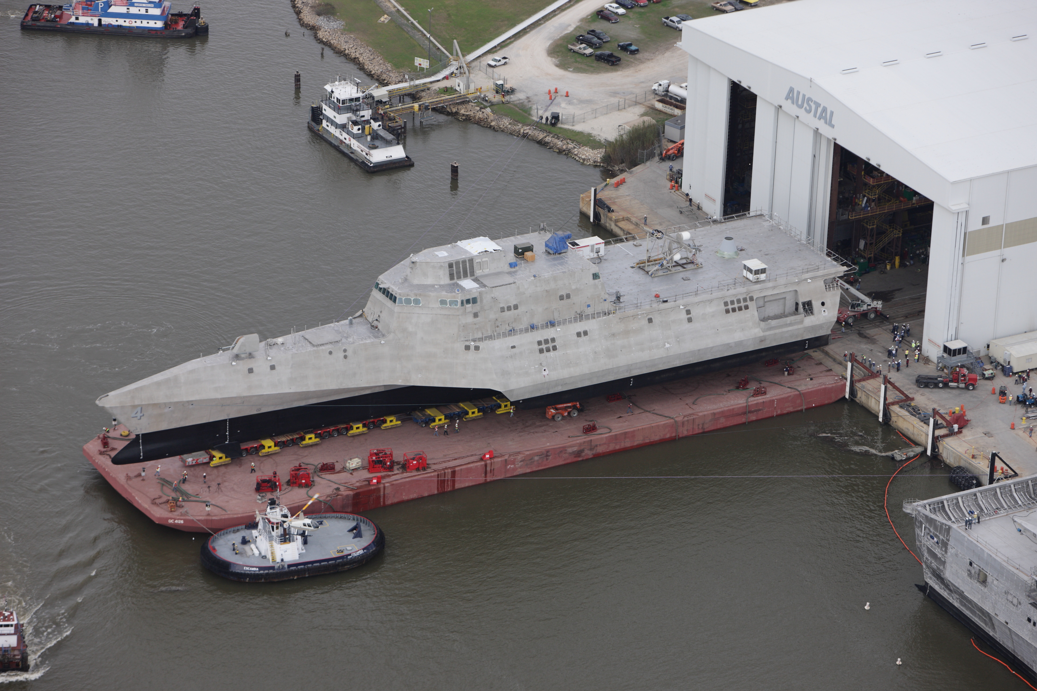 MOBILE, Ala. (Jan. 9, 2011) The littoral combat ship Pre-Commissioning Unit (PCU) Coronado (LCS 4) is rolled-out at the Austal USA assembly bay. Coronado is scheduled to be christened Jan. 14, 2012 and will undergo sea trials later this year. (U.S. Navy photo courtesy Austal USA/Released)